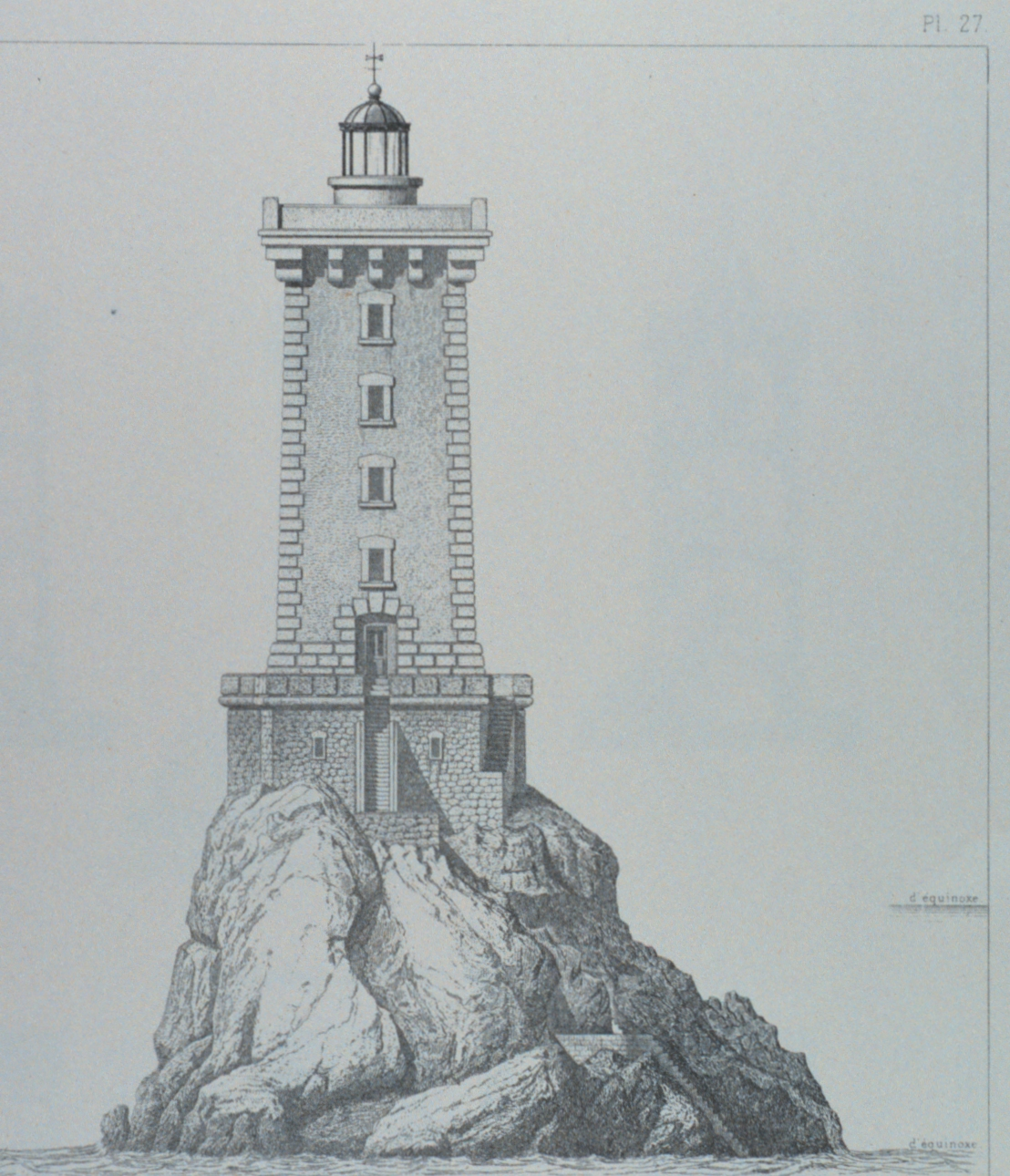 The Lighthouse at Triagoz. Plate 27, Figure 1. Shows high and low water. In: 'Memoir upon the Lighting, Beaconage, and Buoyage of the Coast of France" by M. Leonce Reynaud. Plates. Translated by Rear Admiral Thornton A. Jenkins, U. S. N. 1871. Washington. NOAA Call Number TC 375 .R45 1871. Image ID: libr0203, Treasures of the NOAA Library Collection Photographer: Archival Photograph by Mr. Sean Linehan, NOS, NGS